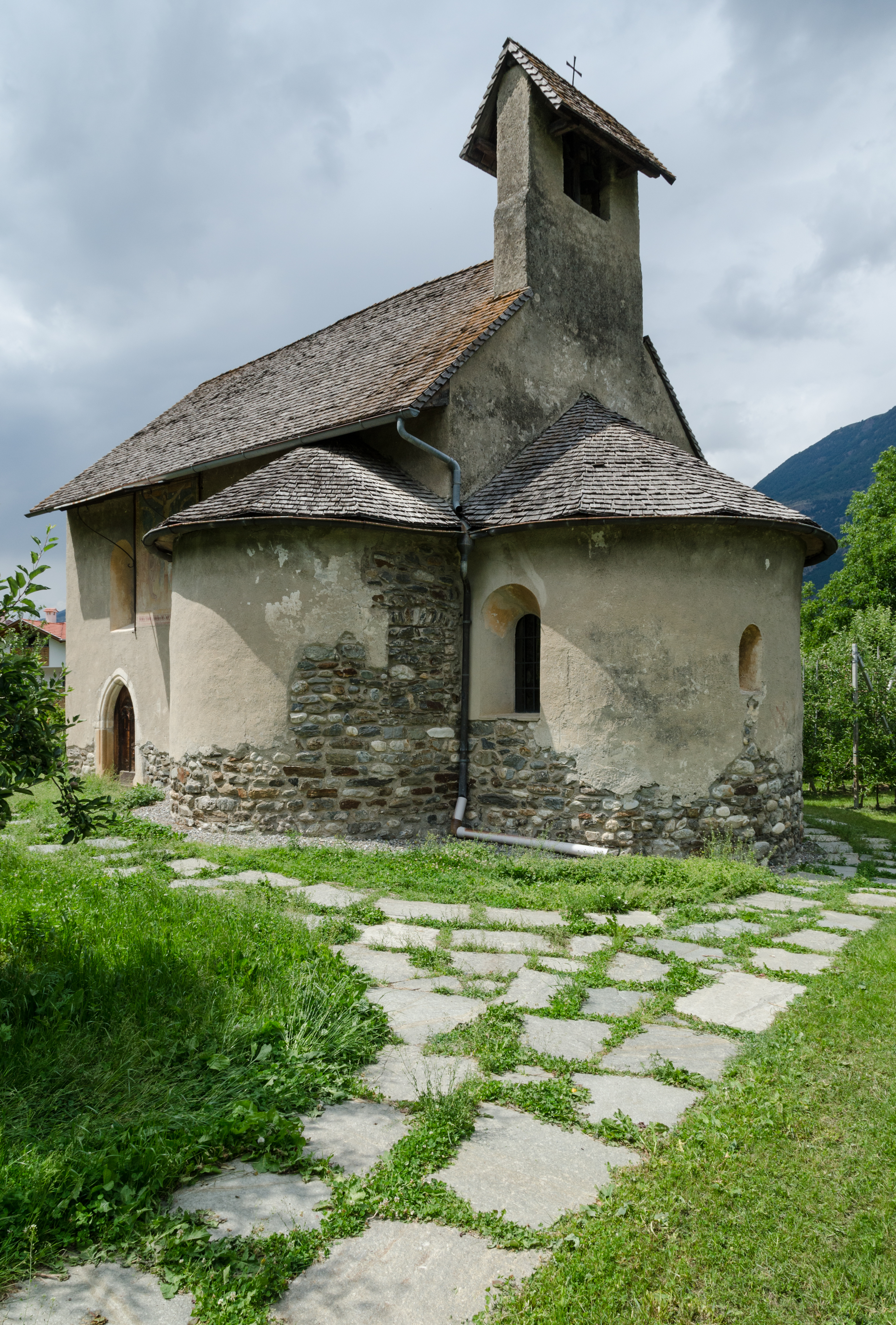 Romanic chapel St Vigil or Saint Blaise, Morter, South Tyrol, Italy